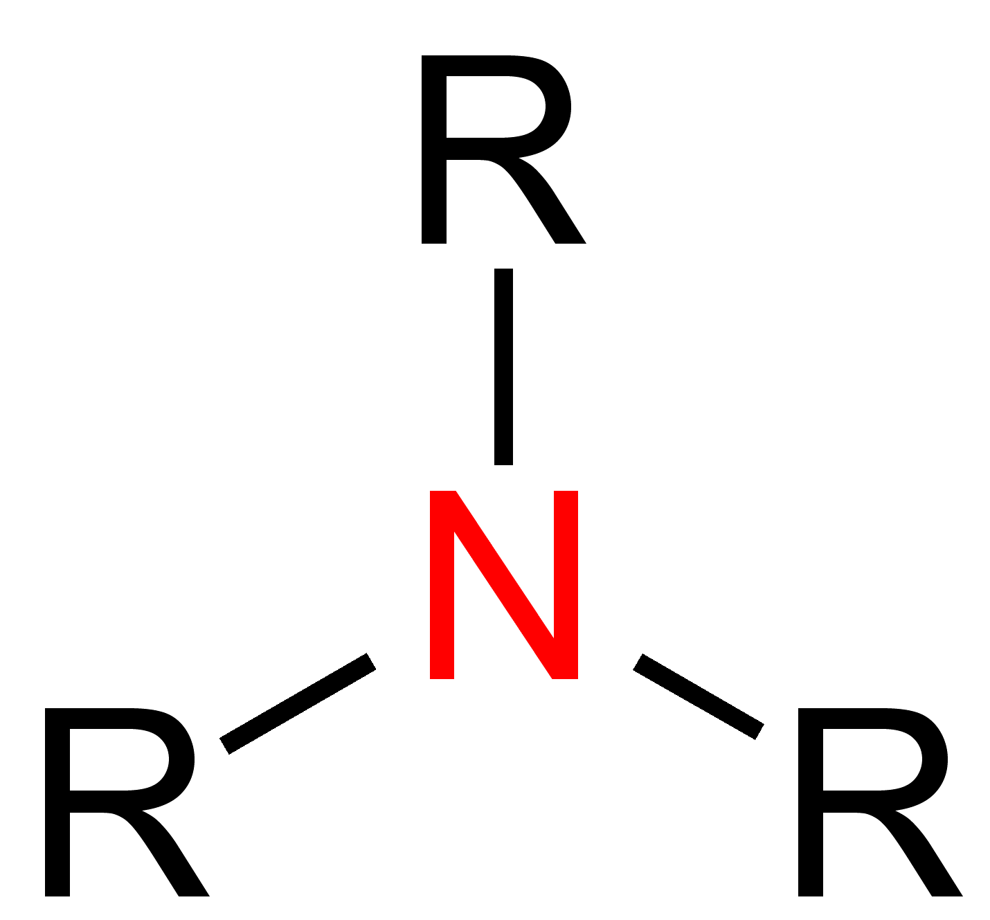 Tert._Amine_Structural_Formulae